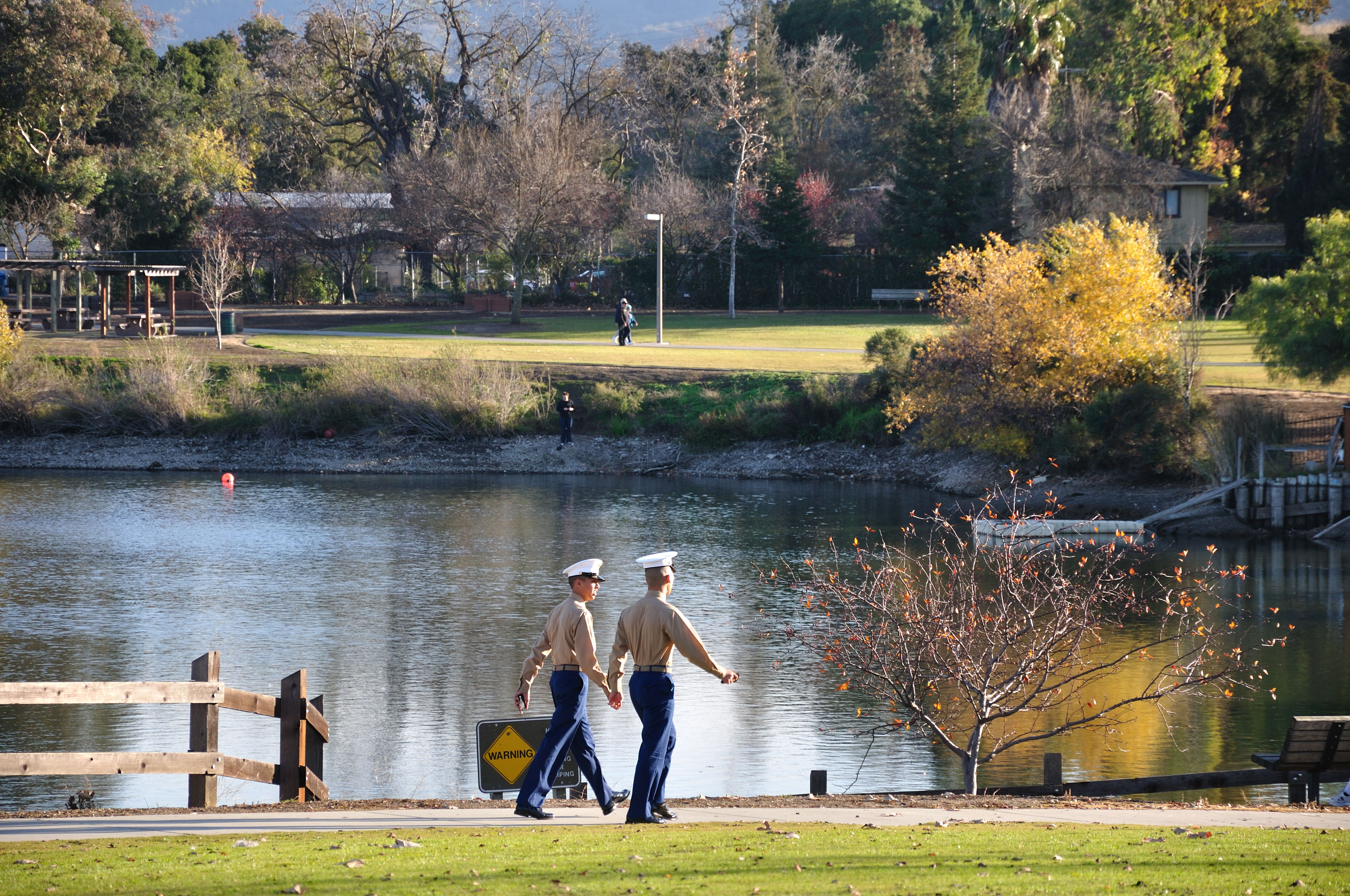 Scene from Almaden Lake Park